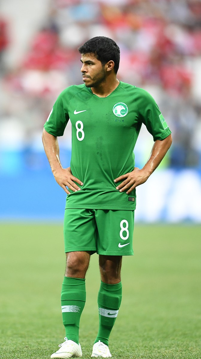 Yahea Al-Sheri